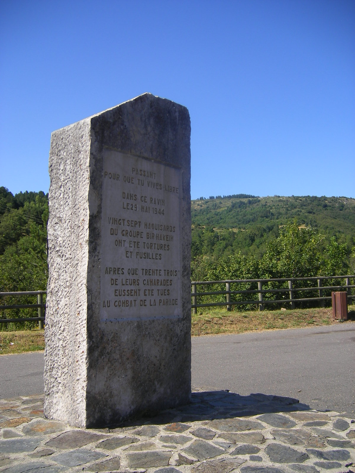 Monument of the 2nd WW resistance in the Tourette Pass.